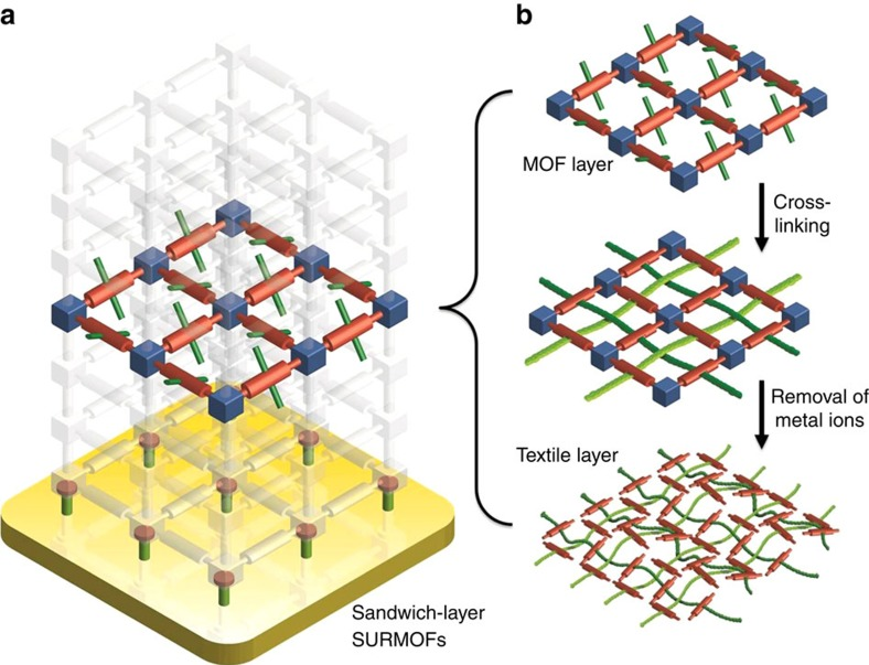 Strategy for the formation of molecular textile. Schematic illustration of the heteroepitaxial sandwich-layer surface-mounted MOF (SURMOF) system ( a ) and the formation procedure of molecular weaving in the active MOF layer embedded between two sacrificial layers ( b ).